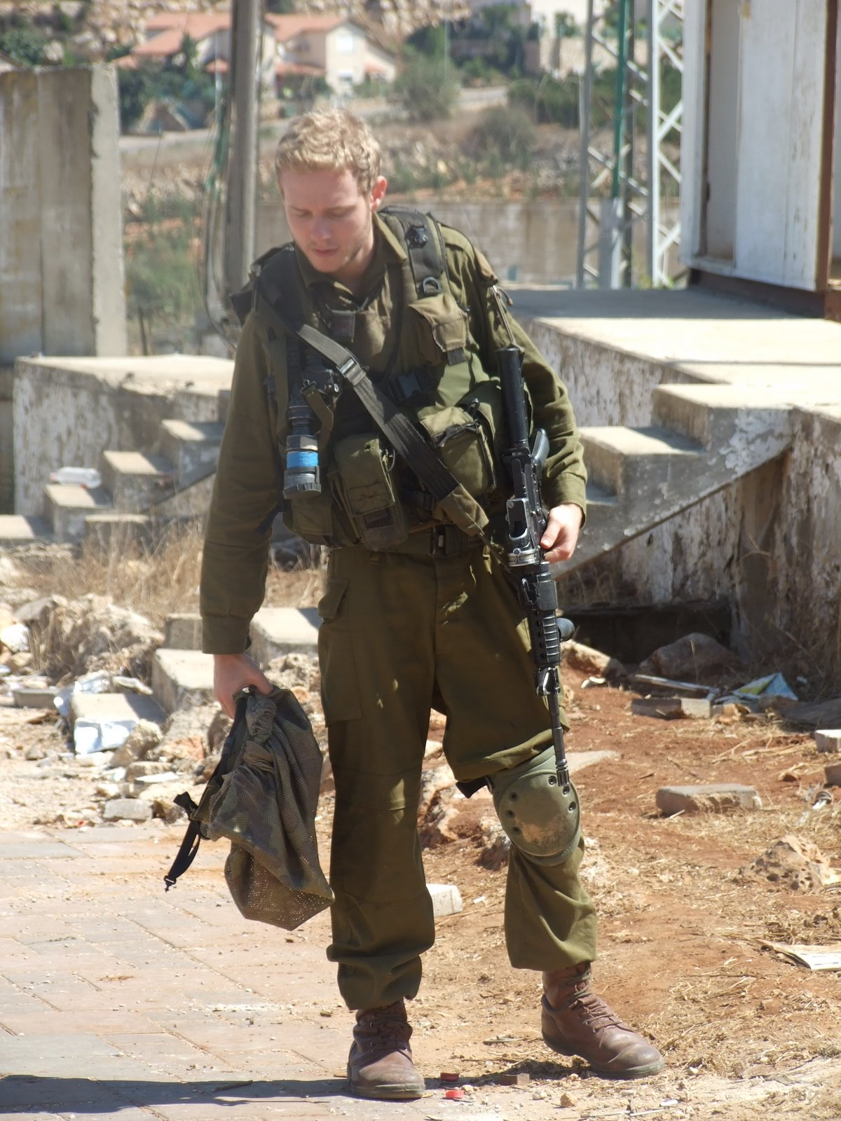 Israeli soldier coming back from the Second Lebanon war.